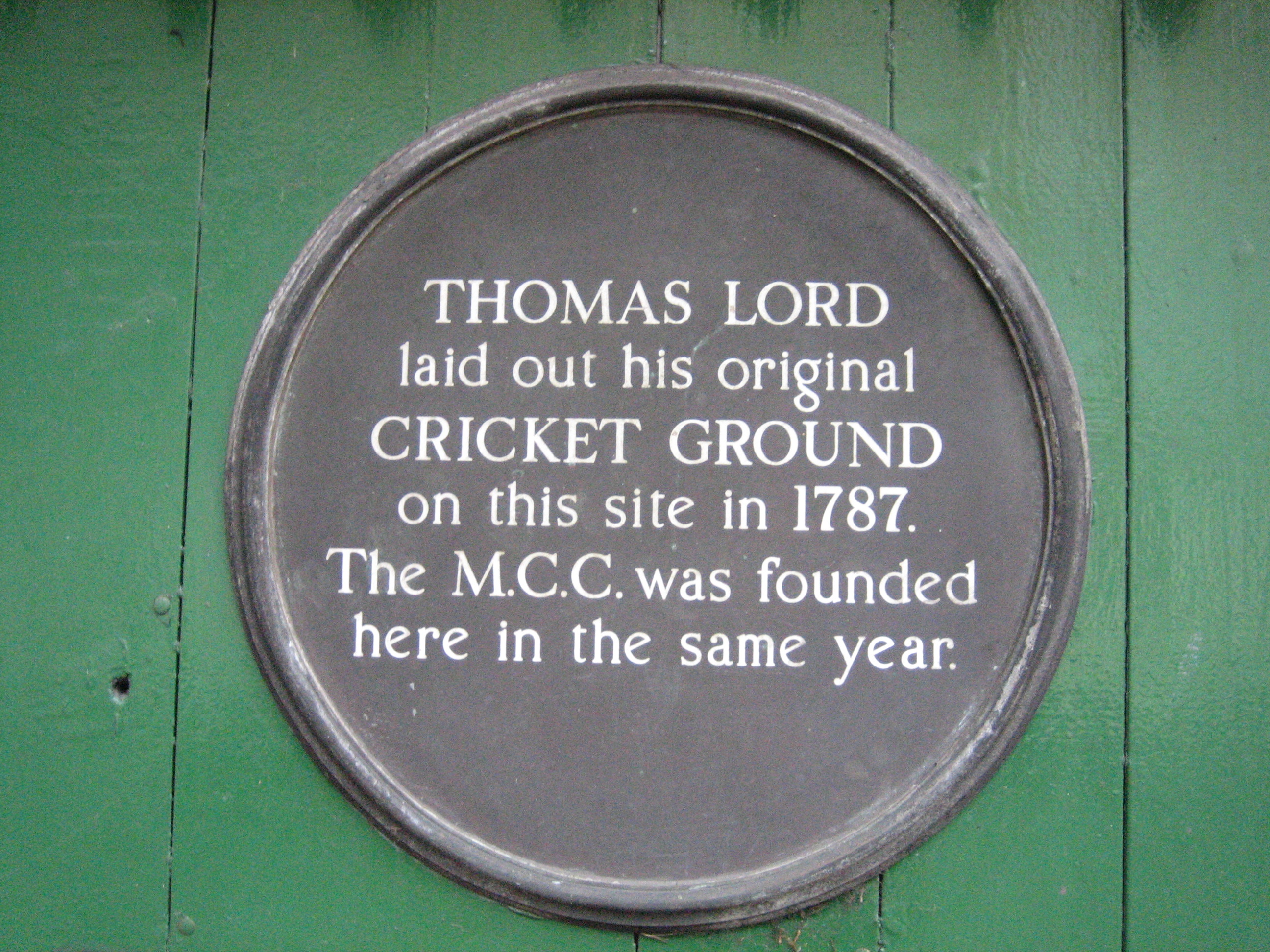 Plaque in Dorset Square commemorating the original location of Lord's Cricket Ground